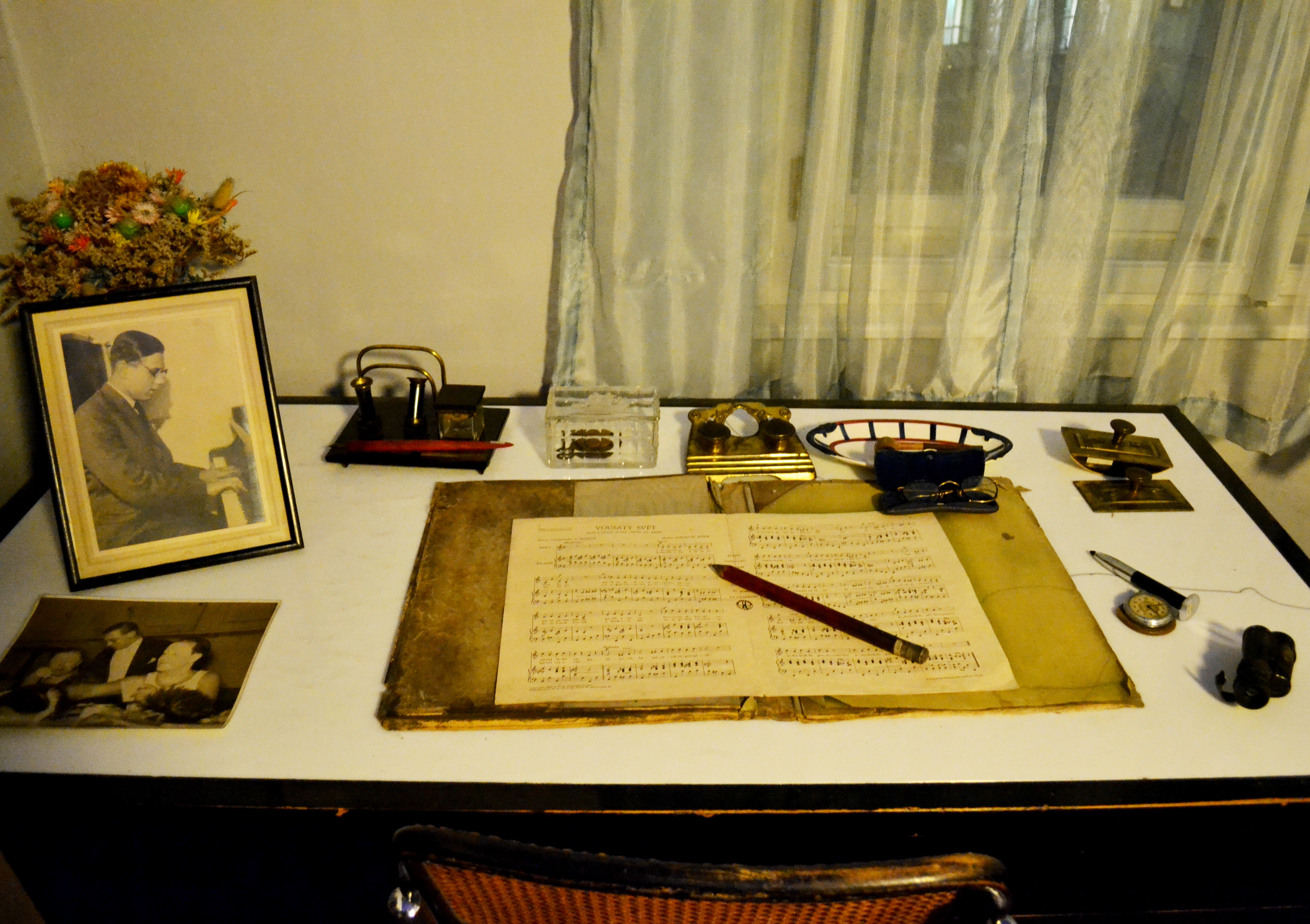 Blue Room of Jaroslav Ježek - designed by František Zelenka, Czech architect (detail of writing desk)